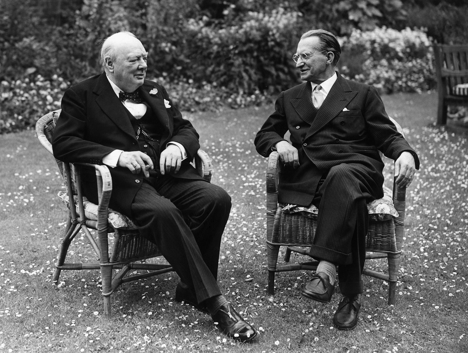 Winston Churchill and Alcide De Gasperi